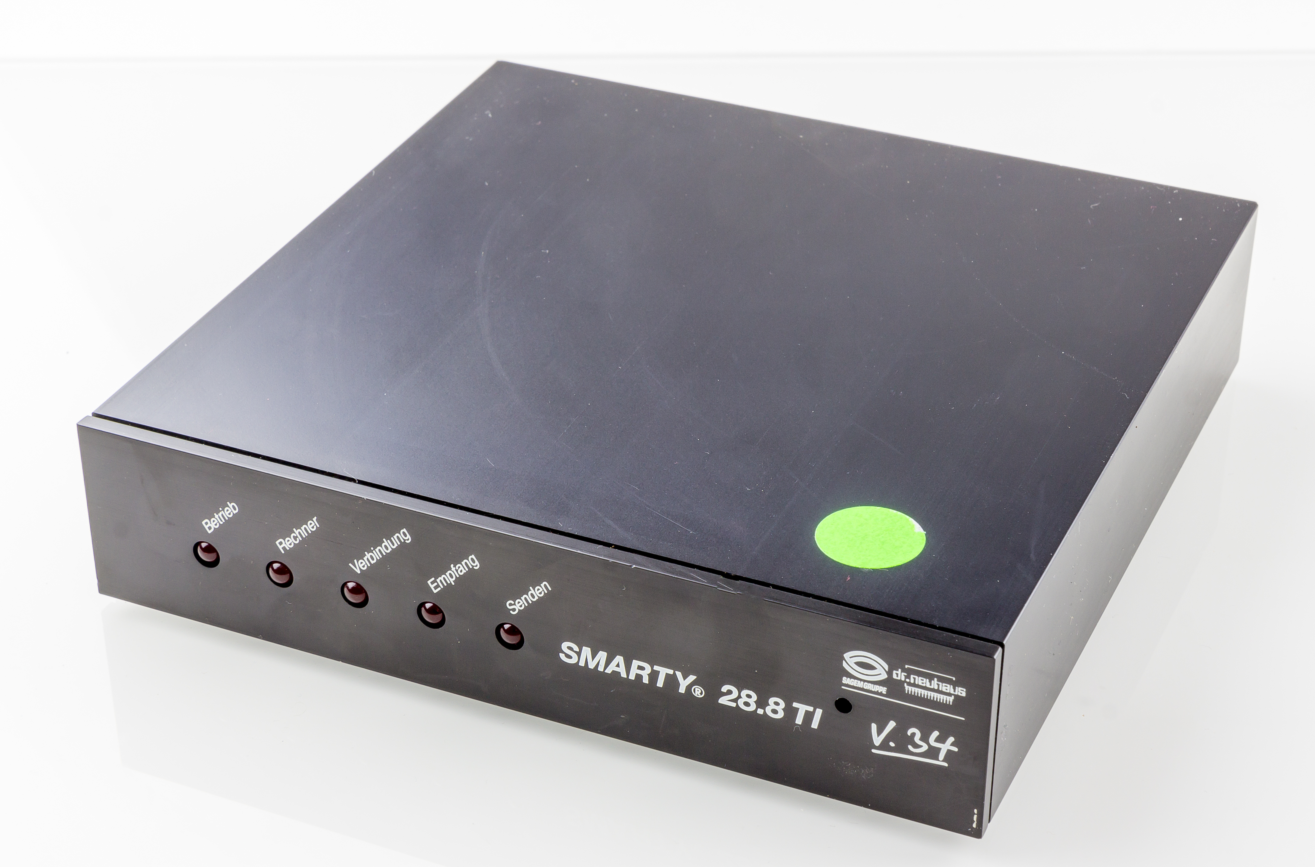 Dr. Neuhaus, Smarty 28.8 TI, V.34 modem